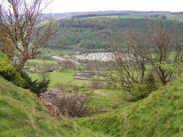 East Applegarth and Swaledale Caravan Park from Whitcliff Scar